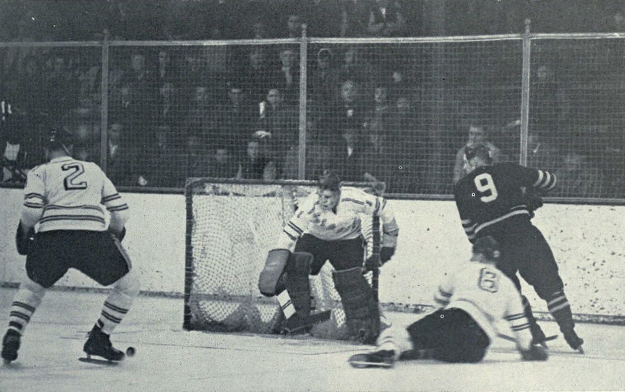 Photograph Red Berenson